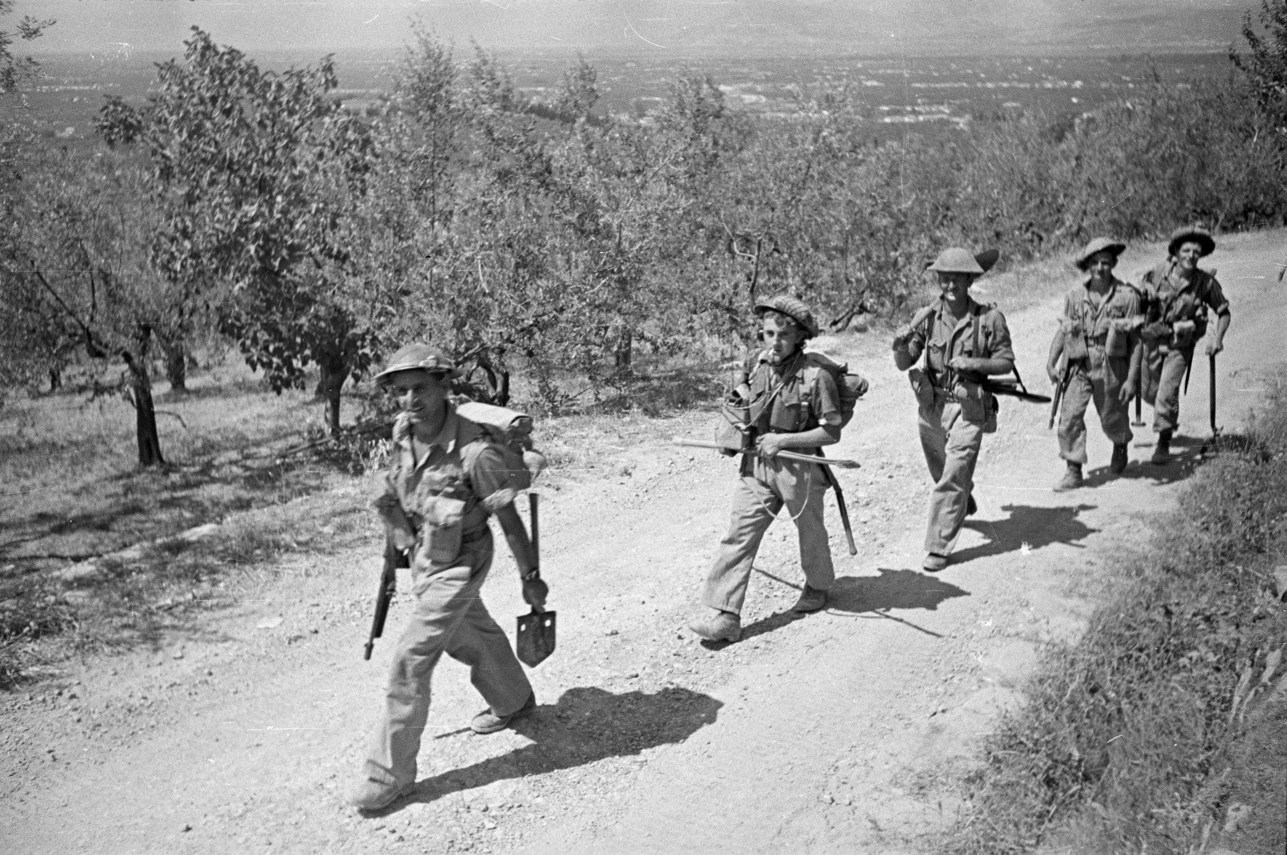 New Zealand infantry moving along the road towards Florence, Italy. New Zealand. Department of Internal Affairs. War History Branch :Photographs relating to World War 1914-1918, World War 1939-1945, occupation of Japan, Korean War, and Malayan Emergency. Ref: DA-06512. Alexander Turnbull Library, Wellington, New Zealand. George Kaye was an official photographer of the NZ Military Forces and thus copyright in this work rests or rested with the Crown. The Crown has released this work under the CC-BY 3.0 unported license. Refer to source website for details: This work's copyright expired 50 years after creation in New Zealand and probably also in countries following the rule of the shorter term.